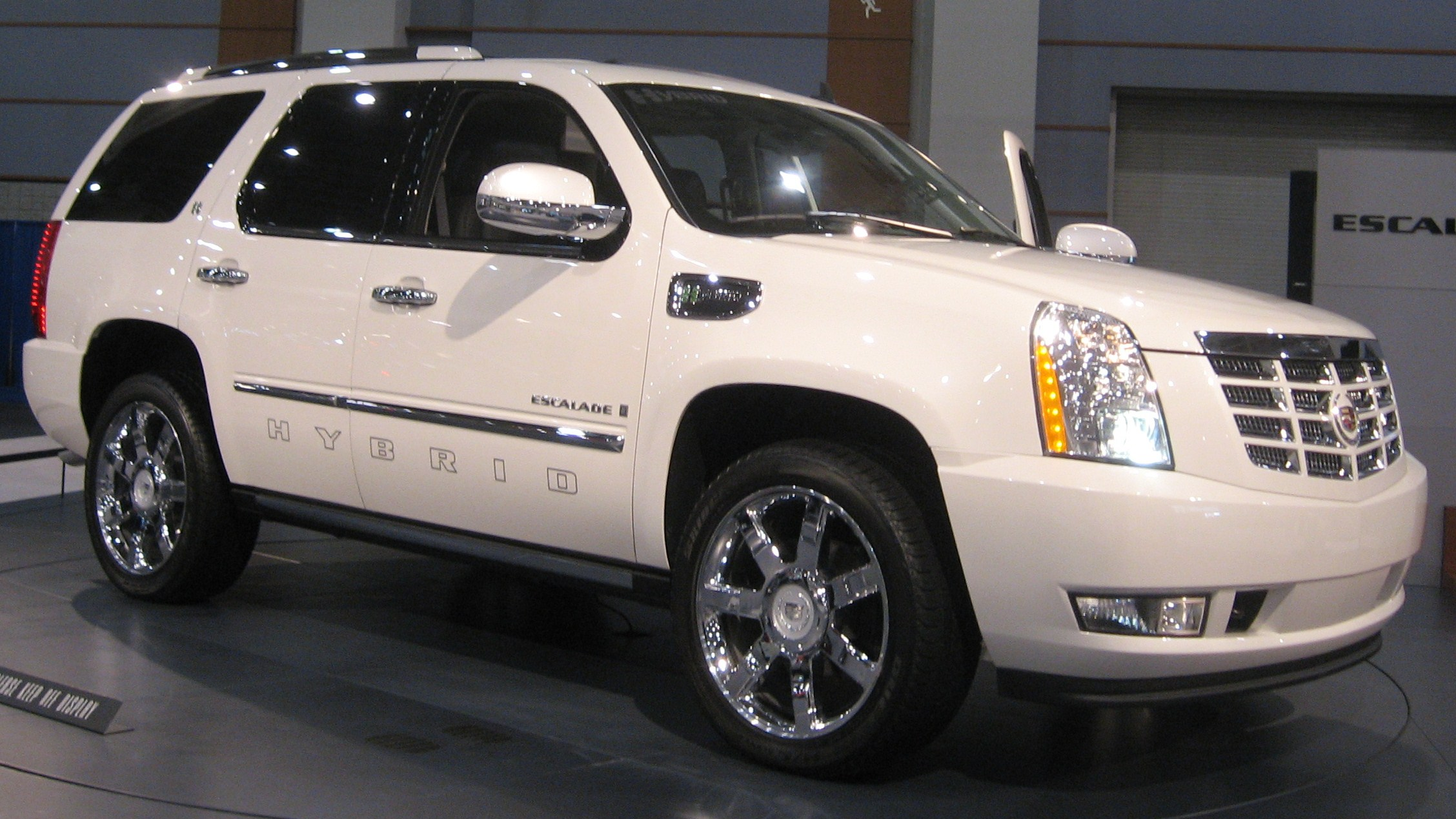 Cadillac Escalade photographed at the 2008 Washington DC Auto Show.